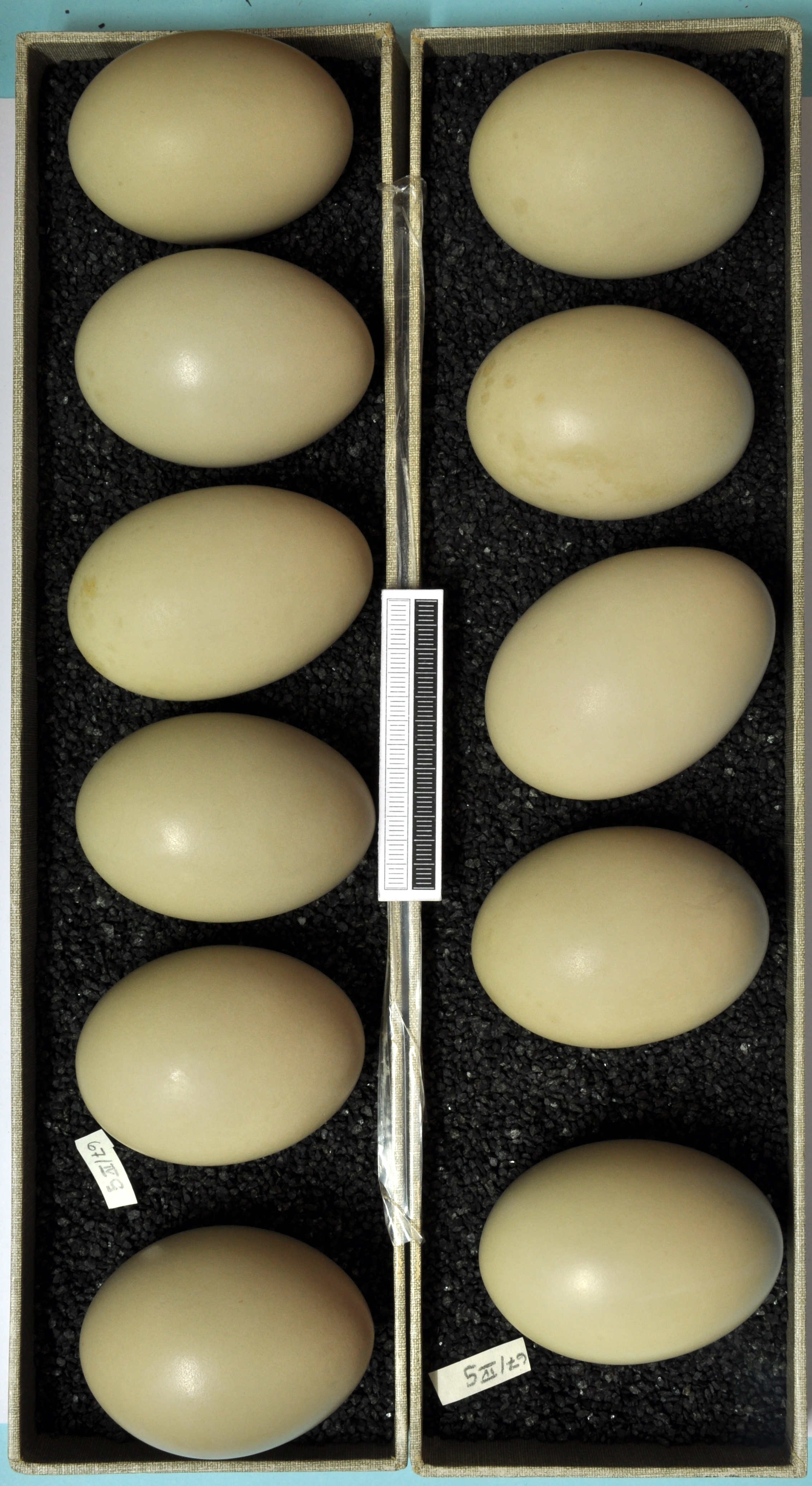 Common pochard Aythya ferina, egg, Coll. Museum Wiesbaden, Origin: Ismaning, Bavaria, 28.05.1973, leg. W. Abelmann